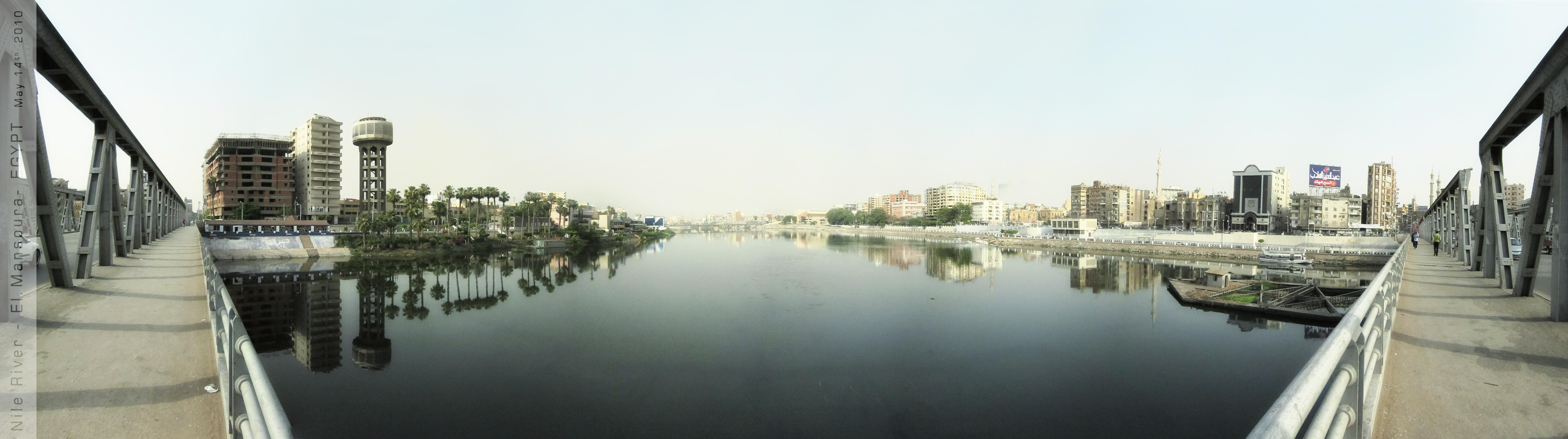 The Nile (Arabic: النيل, an-nīl, Ancient Egyptian iteru or Ḥ'pī, Coptic piaro or phiaro) is a major north-flowing river in Africa, generally regarded as the longest river in the world.[1] The Nile has two major tributaries, the White Nile and Blue Nile, the latter being the source of most of the Nile's water and fertile soil, but the former being the longer of the two. The White Nile rises in the Great Lakes region of central Africa, with the most distant source in southern Rwanda at 2°16′55.92″S 29°19′52.32″E / 2.2822°S 29.3312°E / -2.2822; 29.3312, and flows north from there through Tanzania, Lake Victoria, Uganda and southern Sudan, while the Blue Nile starts at Lake Tana in Ethiopia at 12°2′8.8″N 37°15′53.11″E / 12.035778°N 37.2647528°E / 12.035778; 37.2647528, flowing into Sudan from the southeast. The two rivers meet near the Sudanese capital of Khartoum. The northern section of the river flows almost entirely through desert, from Sudan into Egypt, a country whose civilization has depended on the river since ancient times. Most of the population and cities of Egypt lie along those parts of the Nile valley north of Aswan, and nearly all the cultural and historical sites of Ancient Egypt are found along the banks of the river. The Nile ends in a large delta that empties into the Mediterranean Sea. Source.